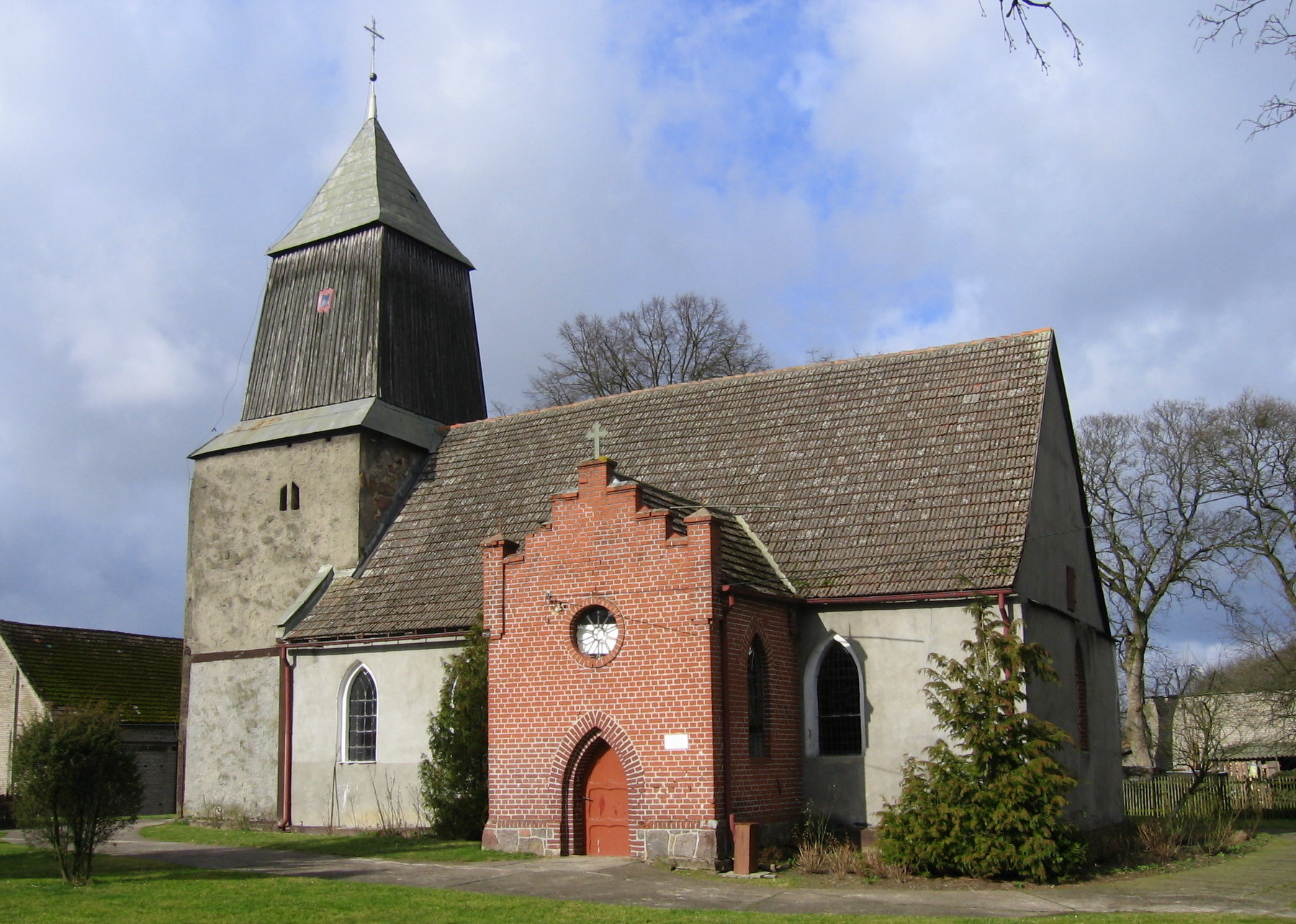 St. Andrew Bobola Church in Mechowo (Gryfice County), Poland